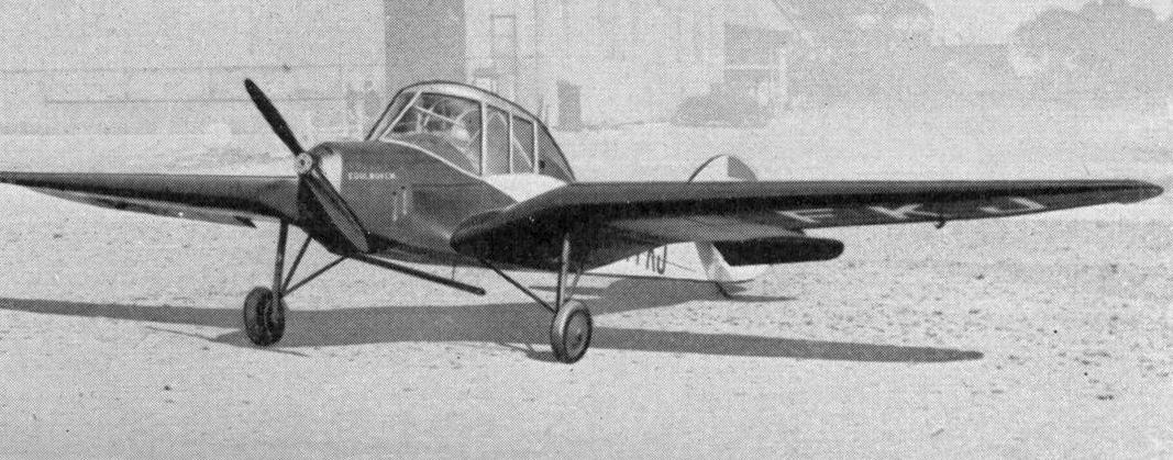 Koolhoven F.K.53 photo from Le Pontentiel Aérien Mondial 1936